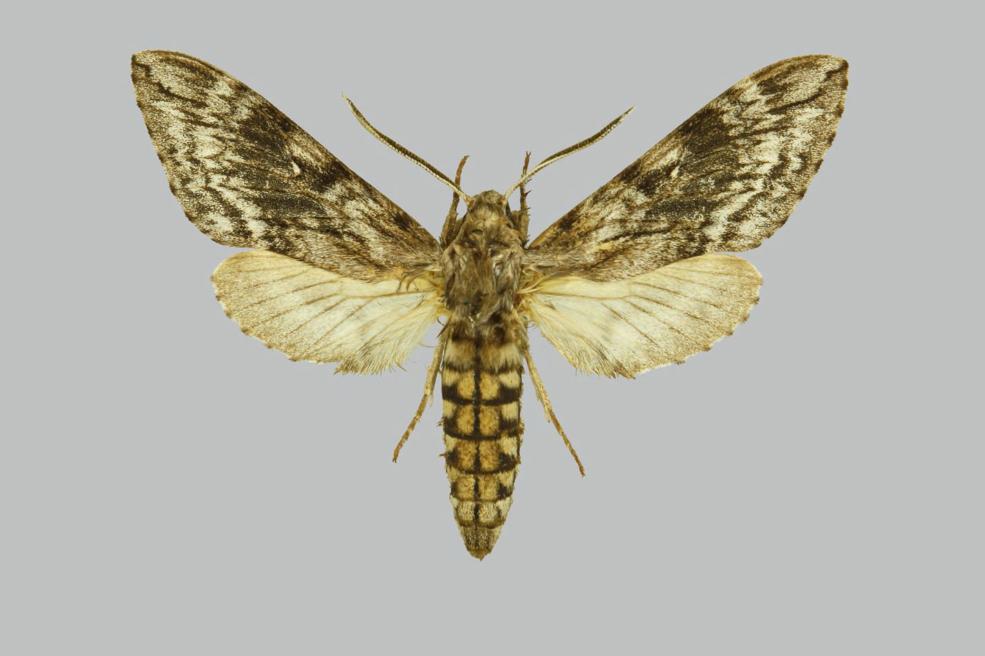 Coenotes eremophilae, male, upperside. Australia, Northern Territories, Katherine, Springvale Homestead